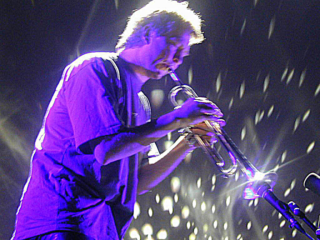 Nils Petter Molvær, playing his trumpet at Global Tempera 2001, in the old Fokus Kino cinema building in Tromsø, Norway. Photo: Krister Brandser